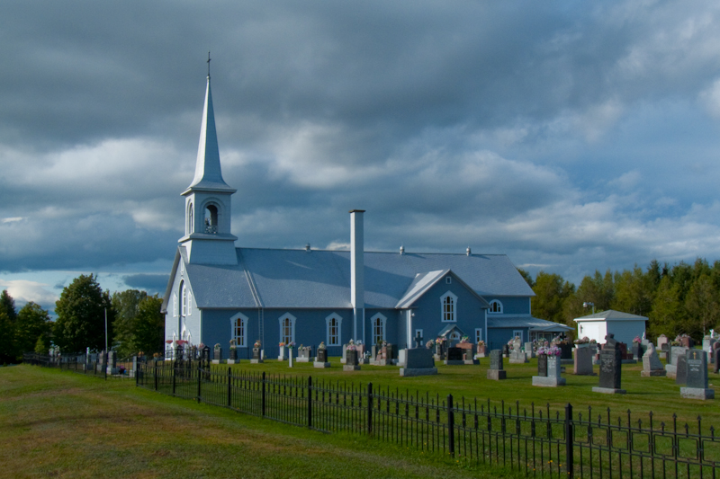 Église de Saint-Gabriel-Lallemant (Church of Saint Gabriel Lallemant) in Bas-Saint-Laurent, Quebec, Canada.